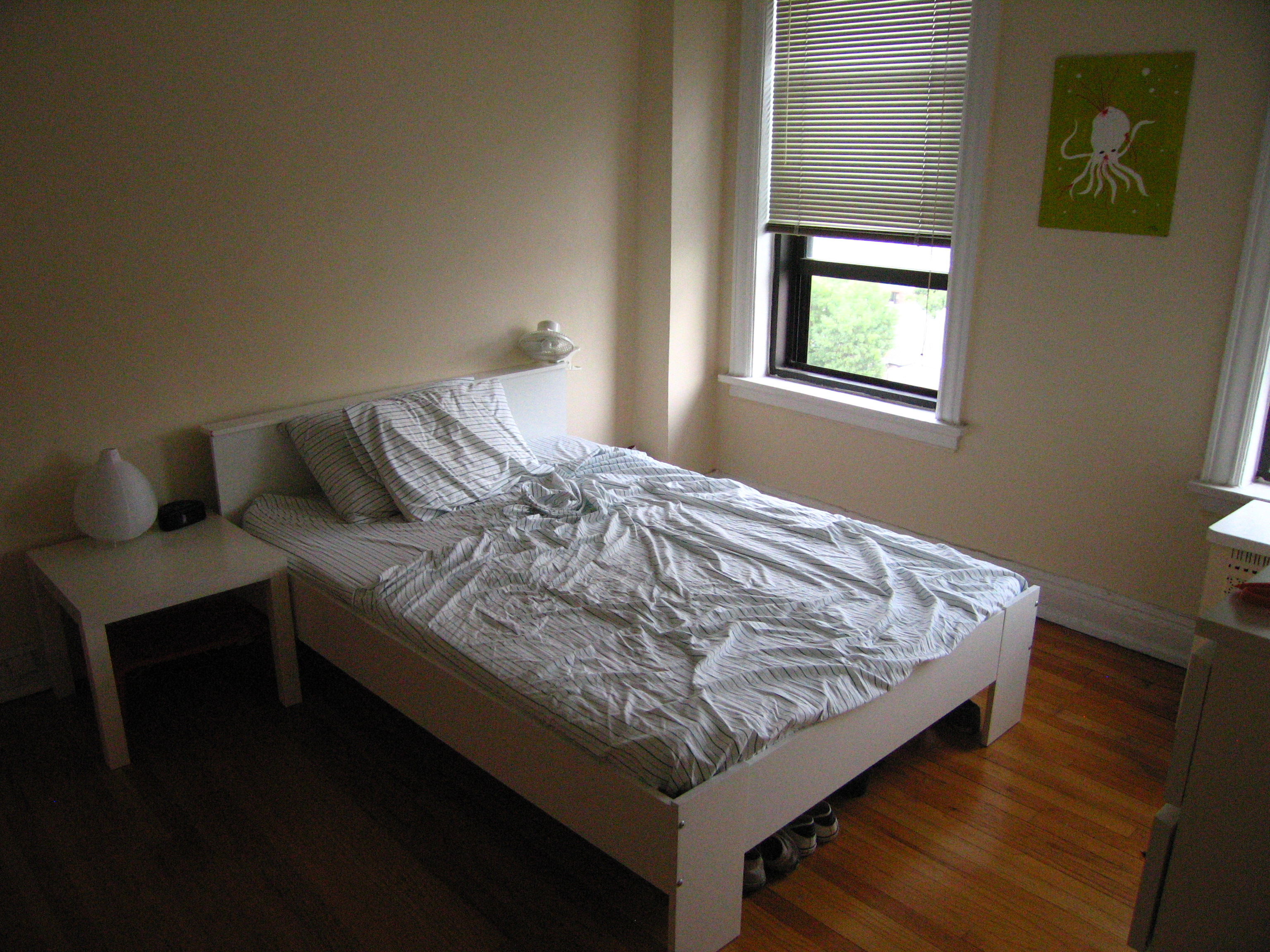 Photo of small, clean room.